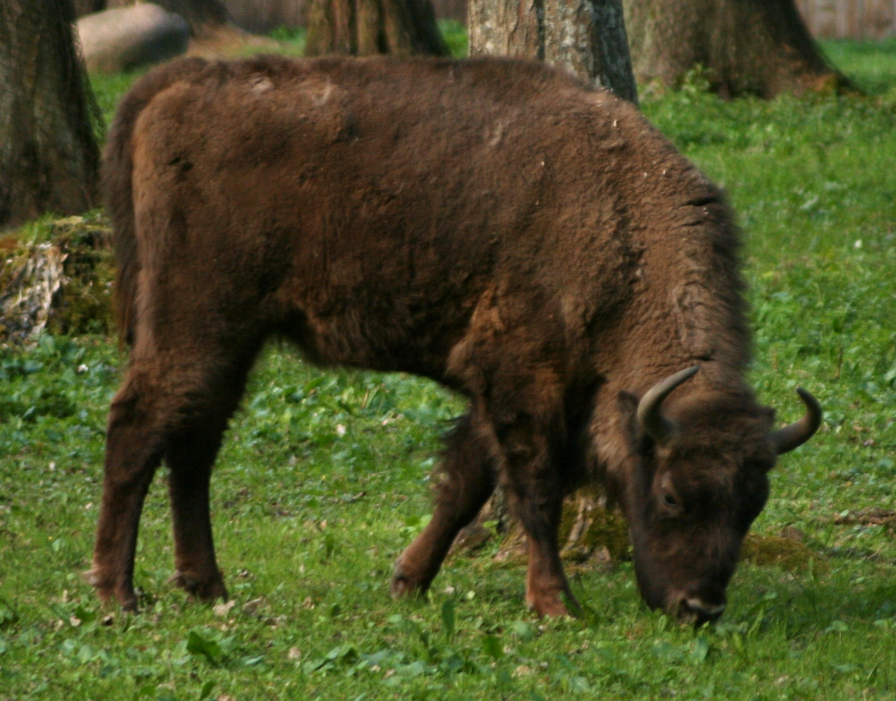 The Wisent or European Bison